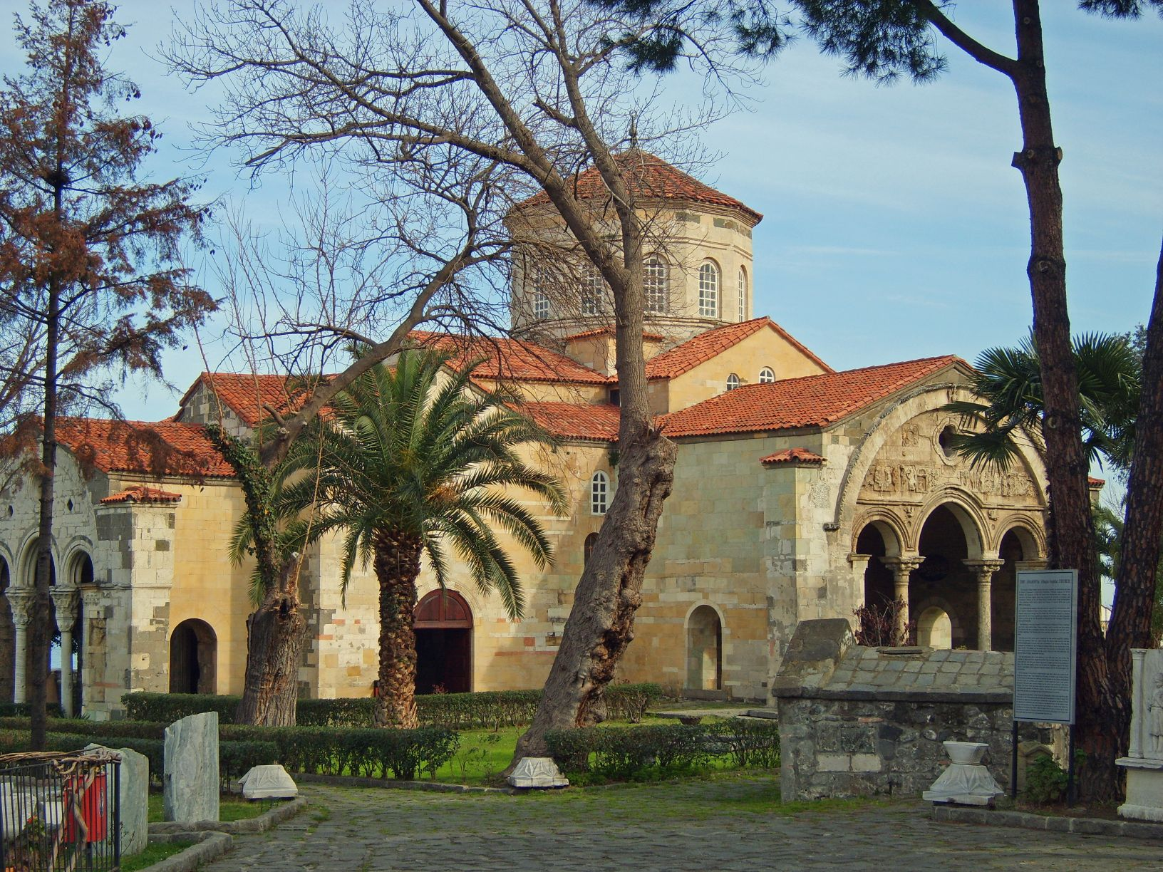 Hagia Sophia - church, later mosque, today museum, in Trabzon, Turkey. 13th century.